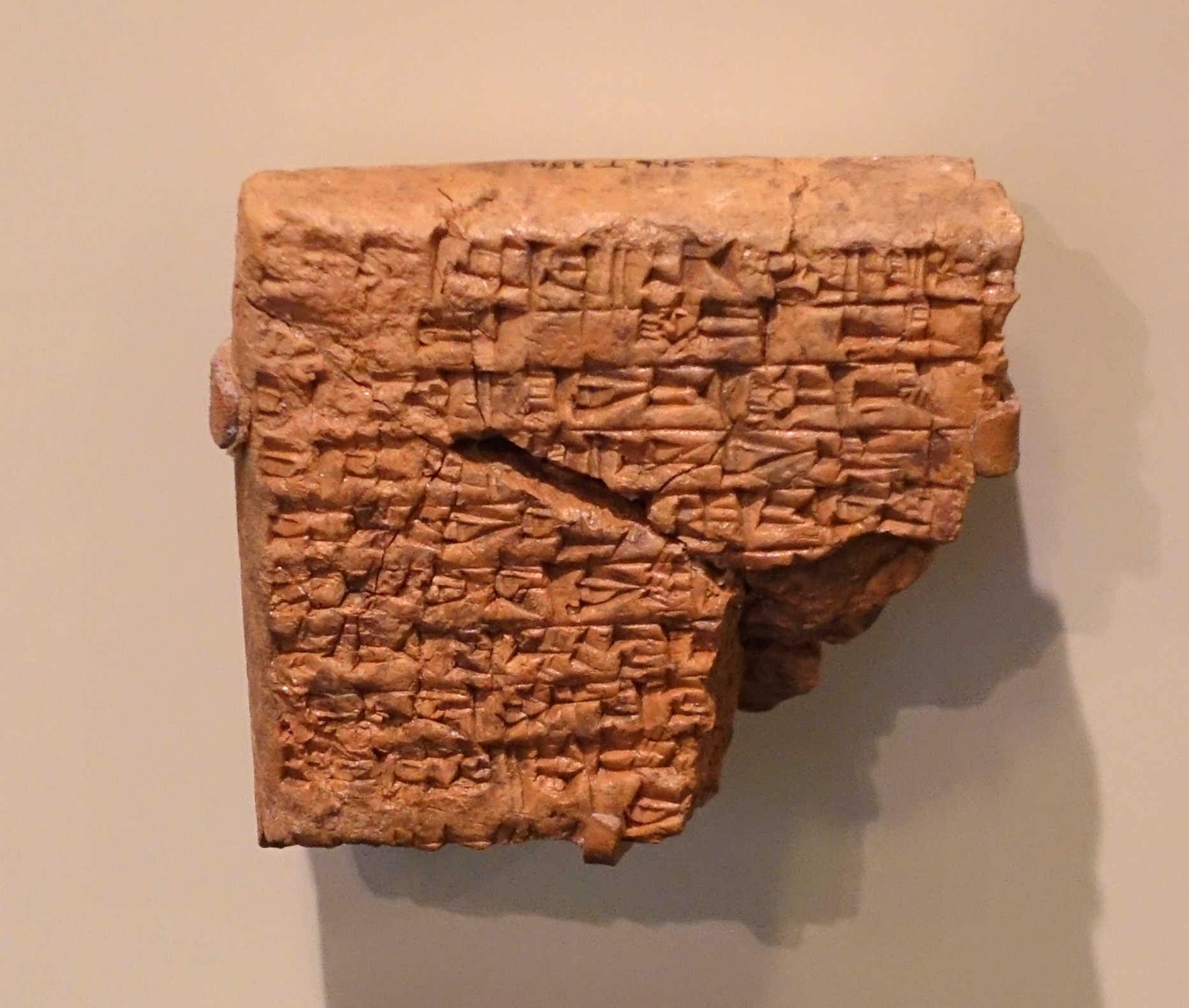 Exhibit in the Oriental Institute Museum, University of Chicago, Chicago, Illinois, USA. This work is old enough so that it is in the public domain.